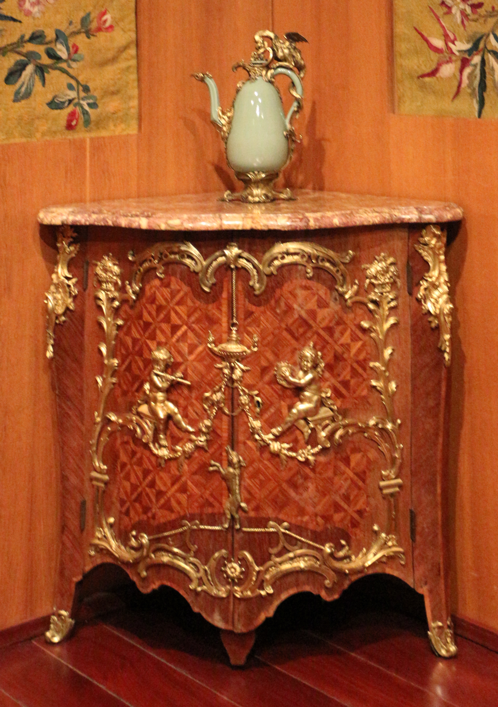 Furniture in the Calouste Gulbenkian Museum